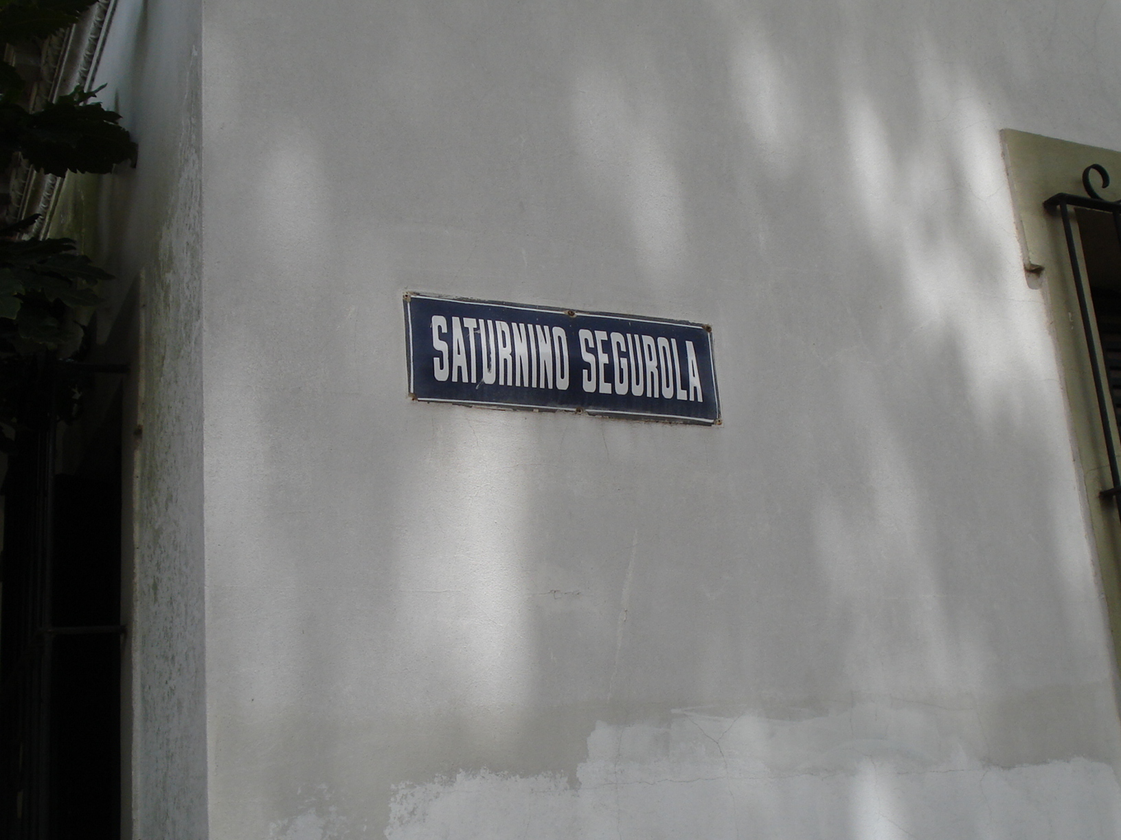 Saturnino Segurola street in Vicente López, Bs. As. Province, Argentina.